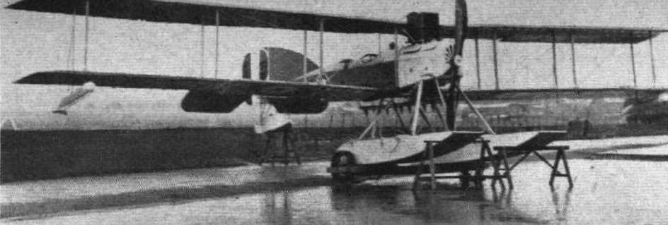 Short Type 184.